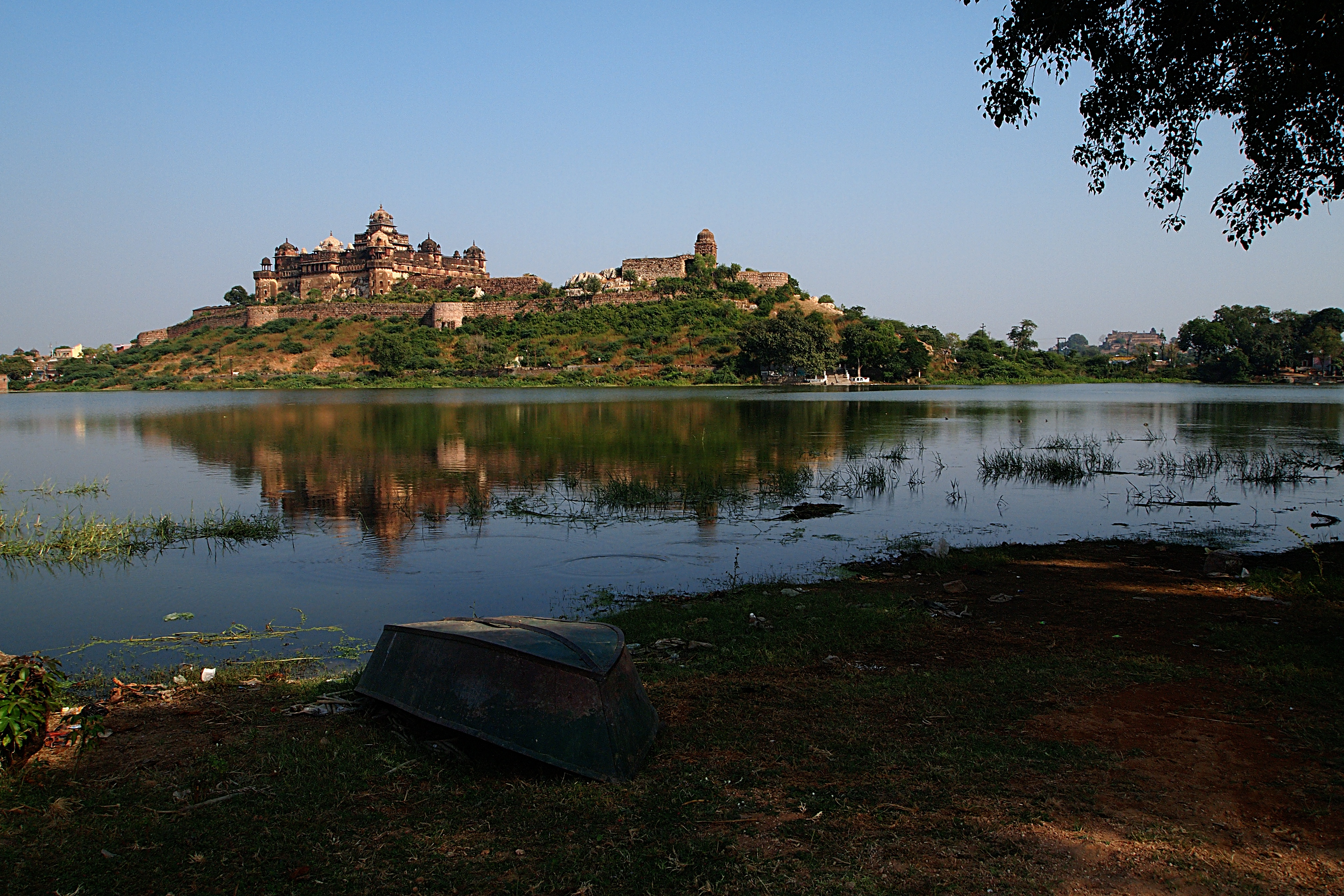 Beer Singh Palace